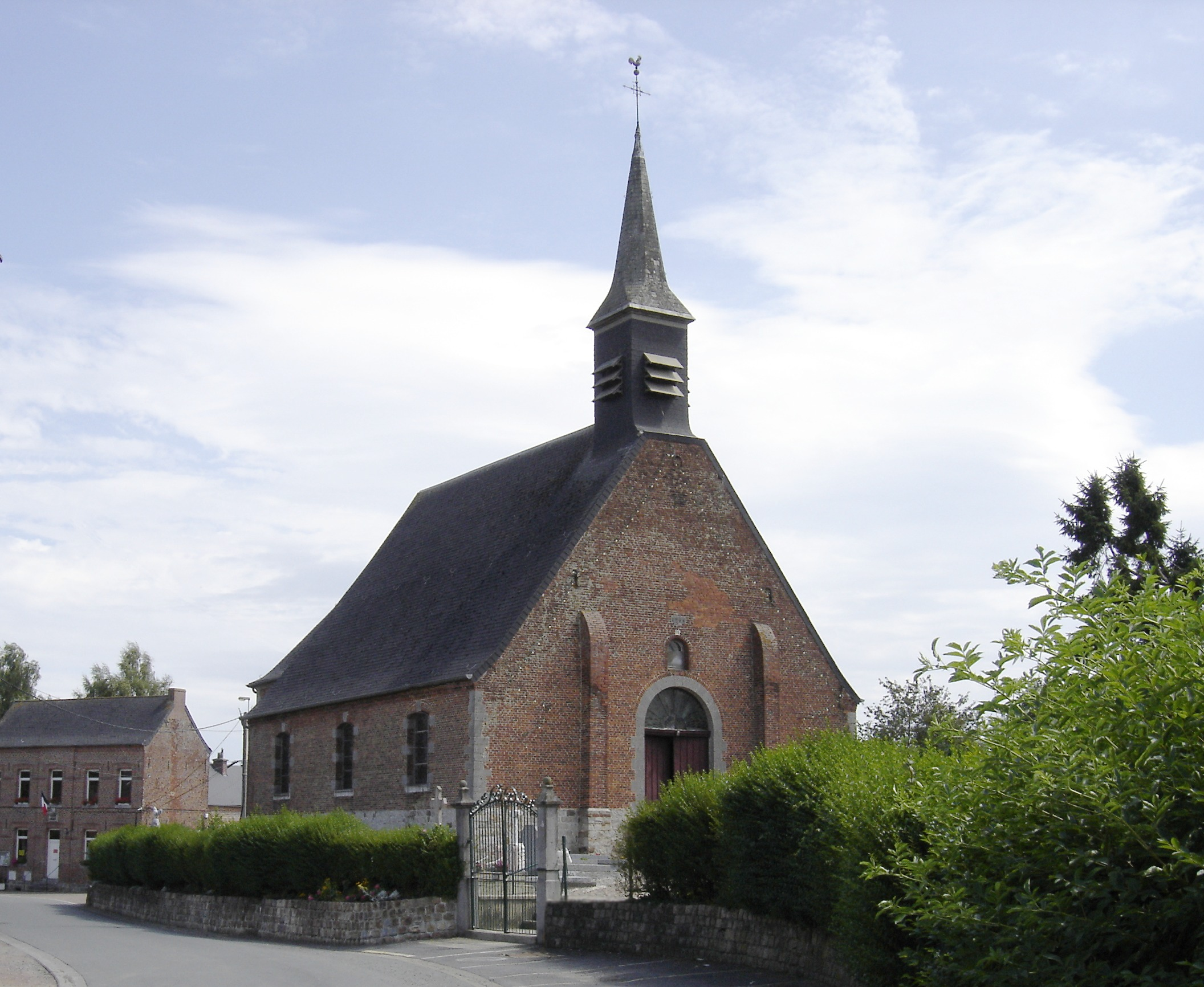 Hecq Center of the village